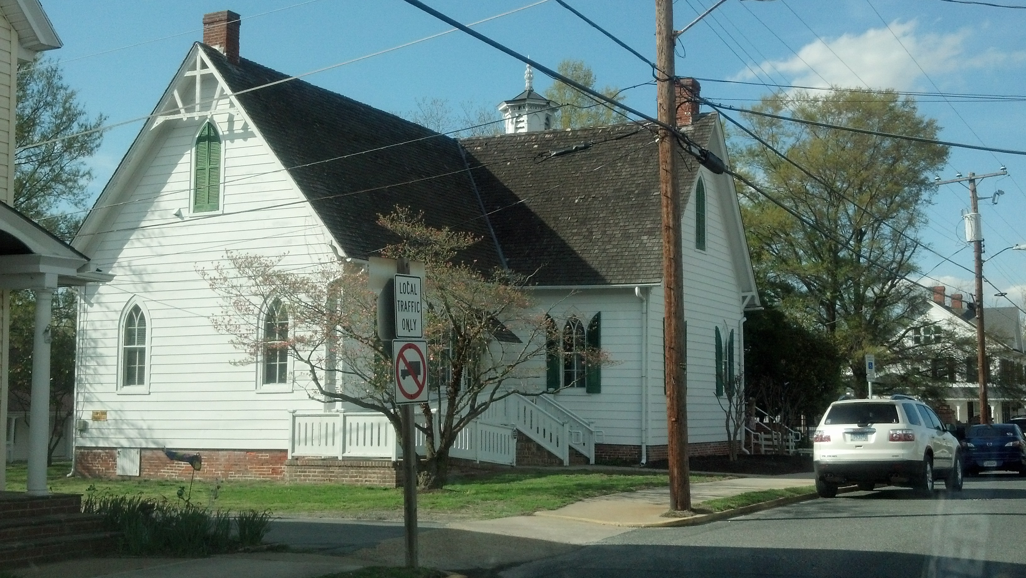 Denton Schoolhouse